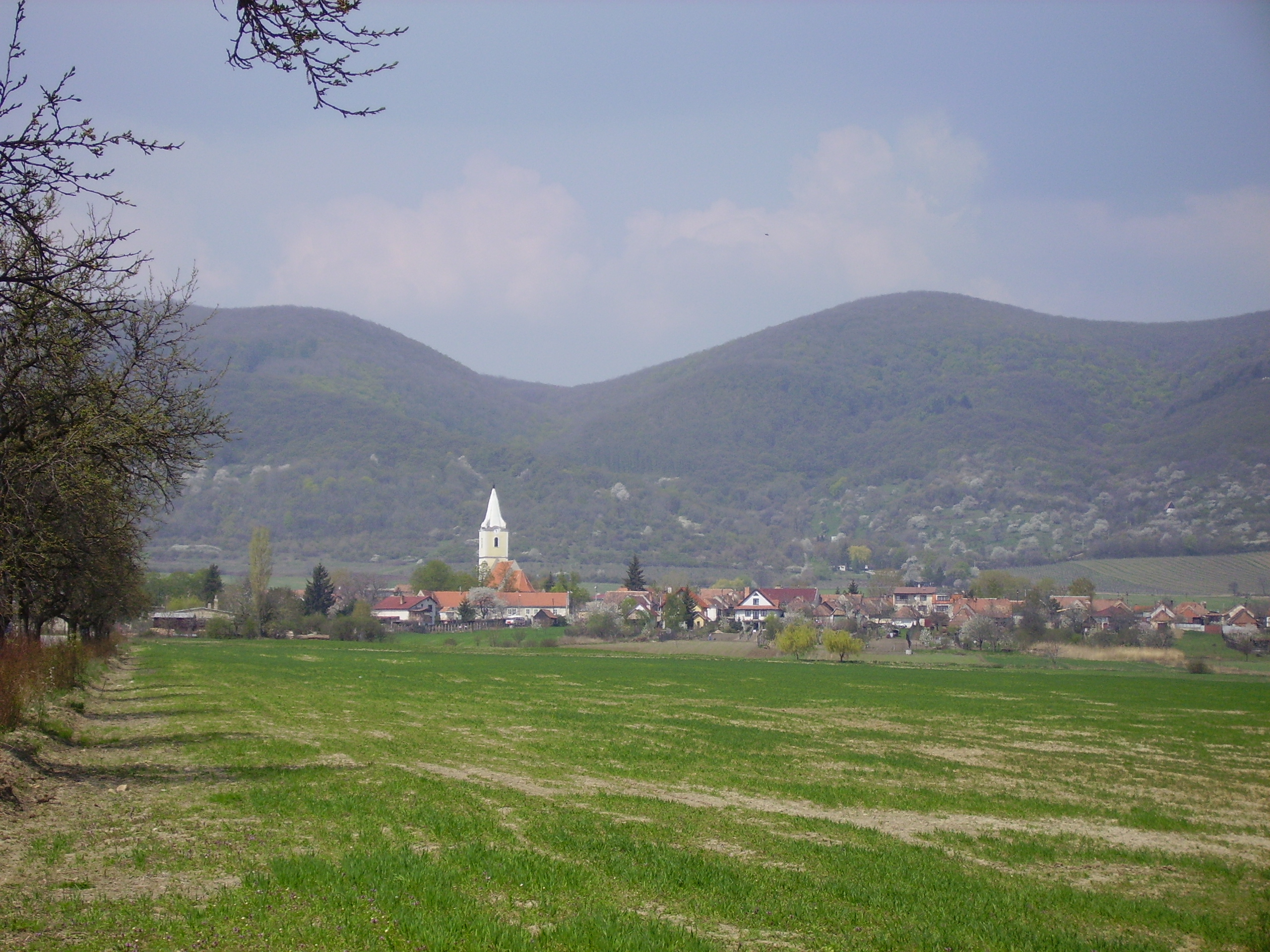 Description: Dolné orešany Village, Slovakia; Author: Radovan Bahna, April 2006